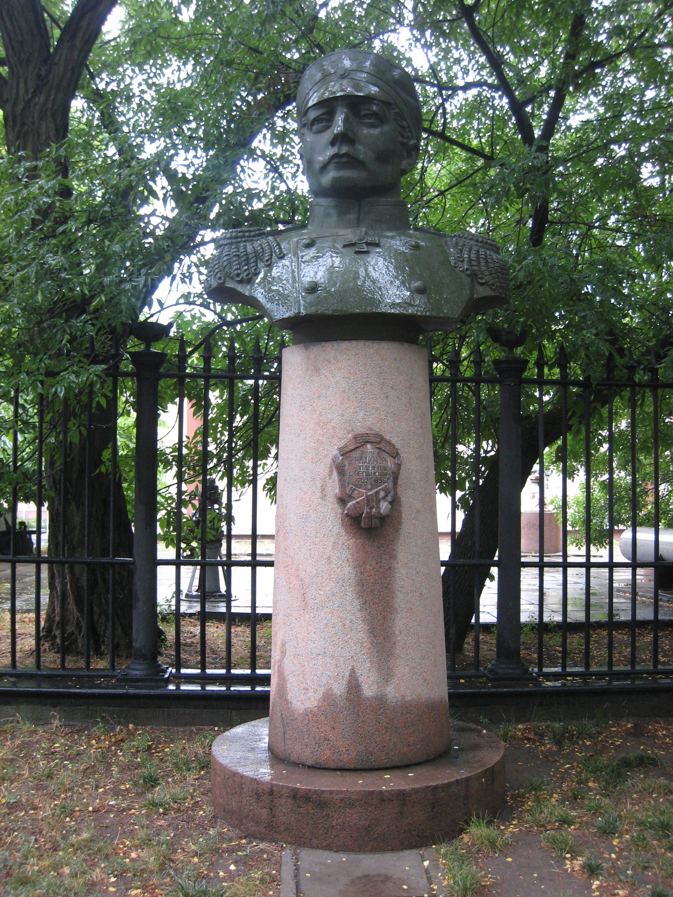 Monument to Pavel Nakhimov in Mykolaiv, Ukraine.